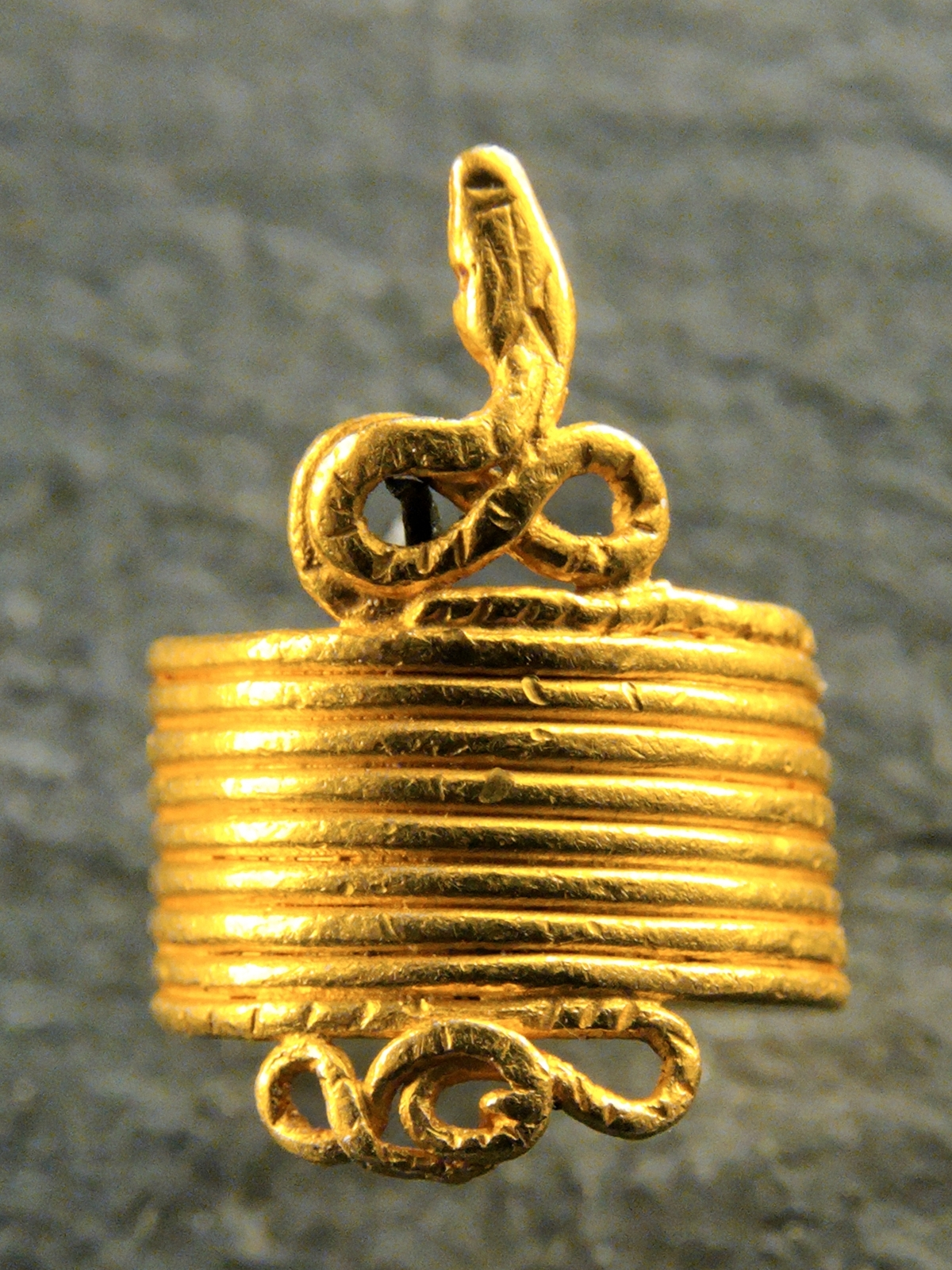 Snake-shaped ring. Greek artwork, 4th century BC.